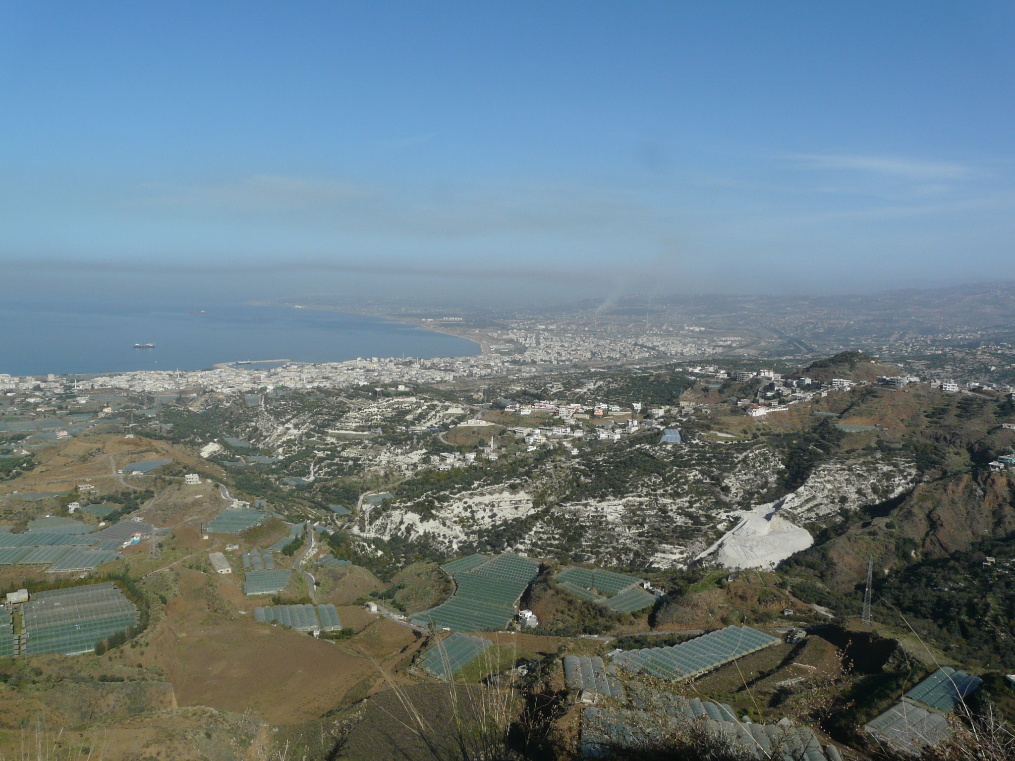 Baniyas from over Marqab castle.